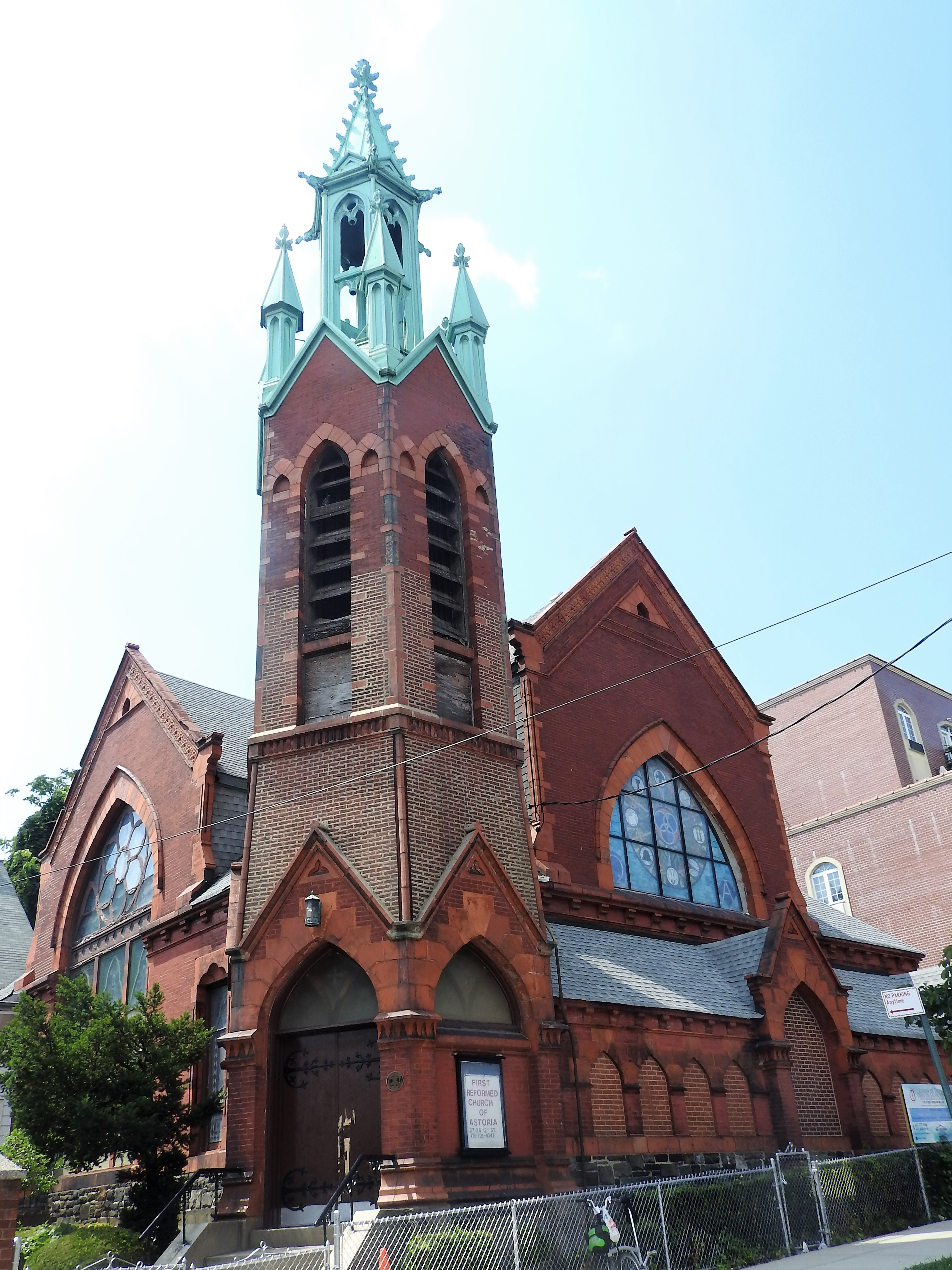 Looking northwest on a sunny early afternoon